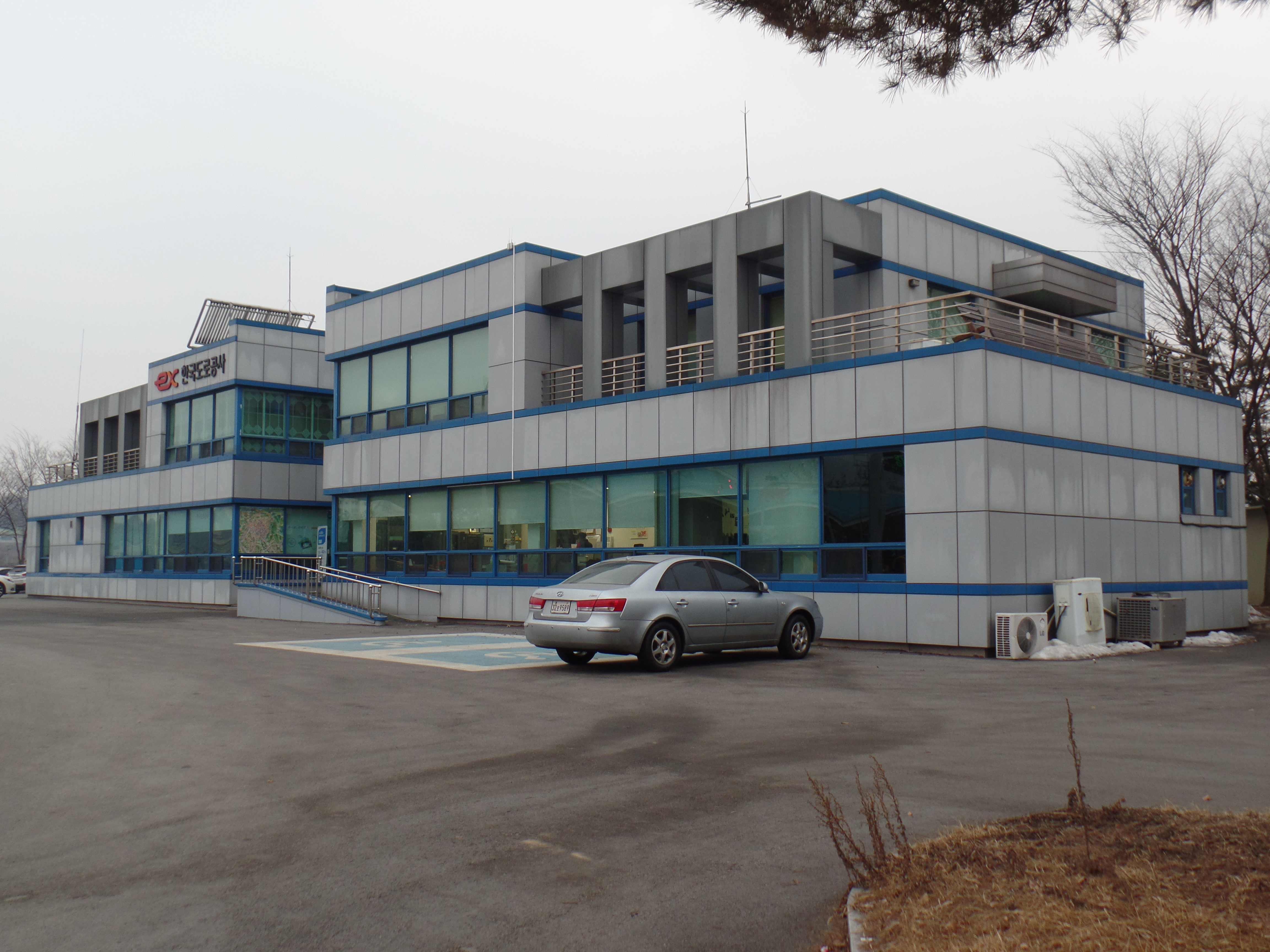 Korea Expressway Corporation Wonju Office